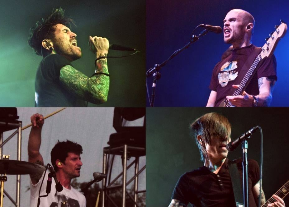 I took these photos when AFI performed at the O2 Academy in Birmingham, England, on April 12th, 2010. I was in England while studying abroad, and took the chance to see them perform live.